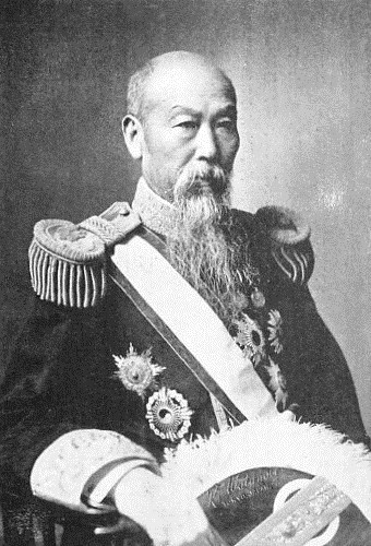 Chiaki Watanabe (Count)